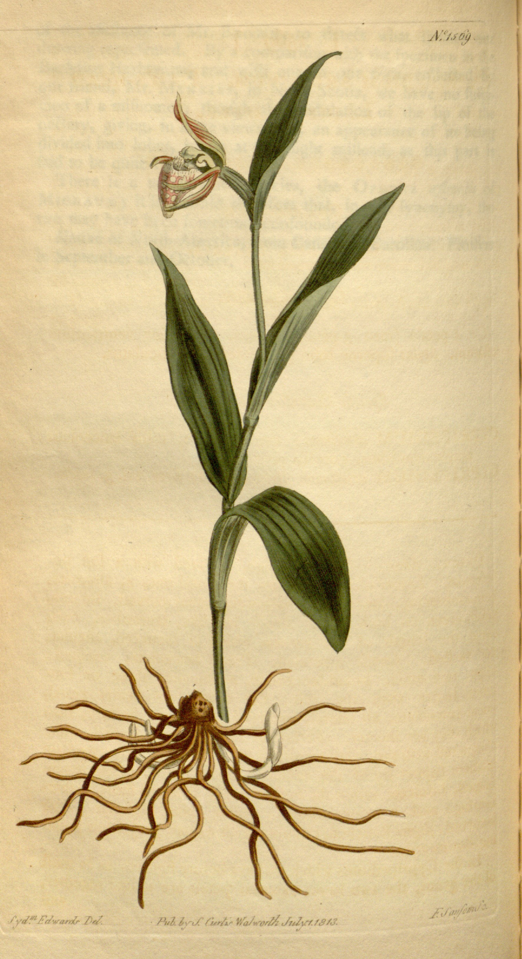 Illustration of Cypripedium arietinum